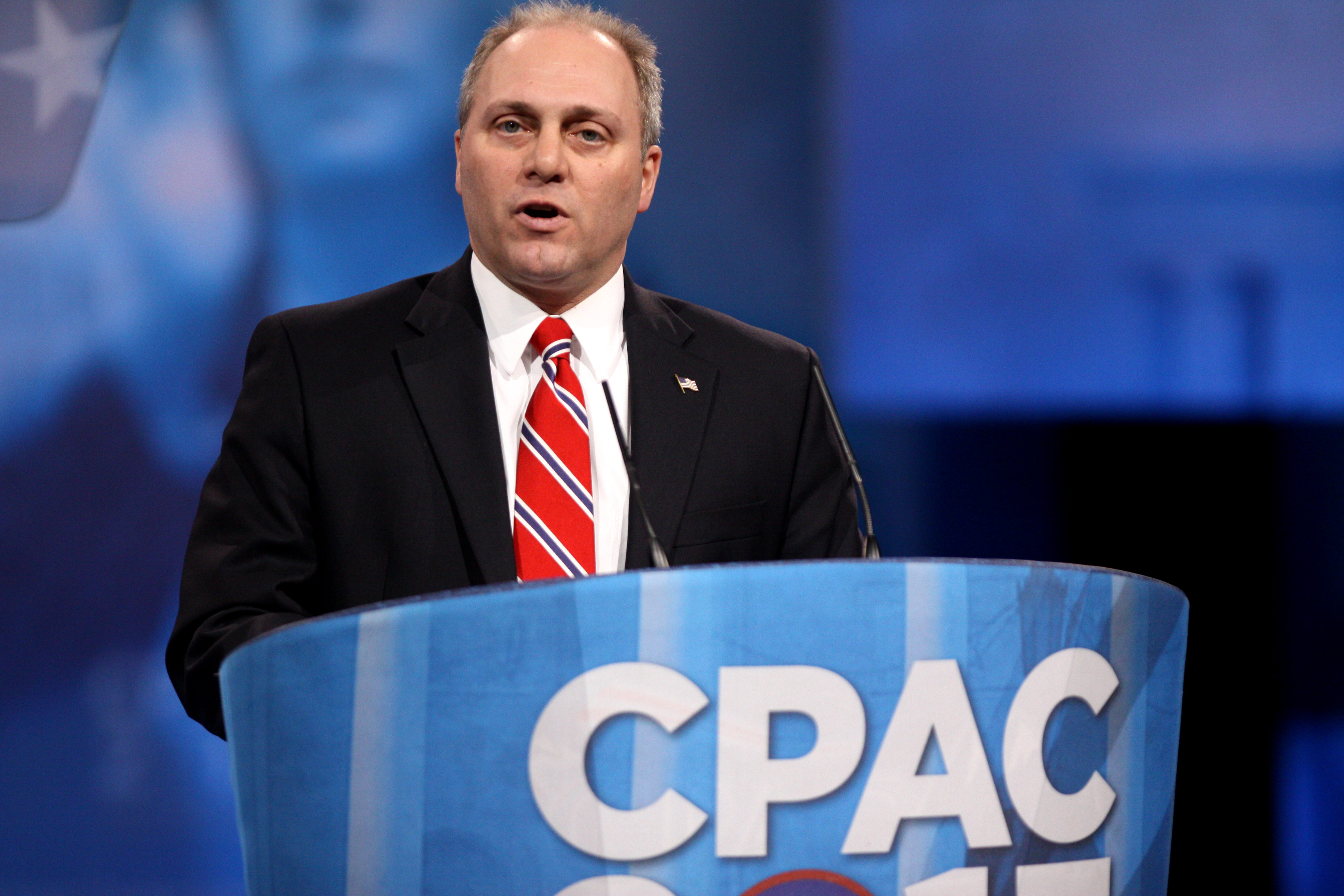 Steve Scalise speaking at the 2013 CPAC in Washington D.C. on March 15, 2013.